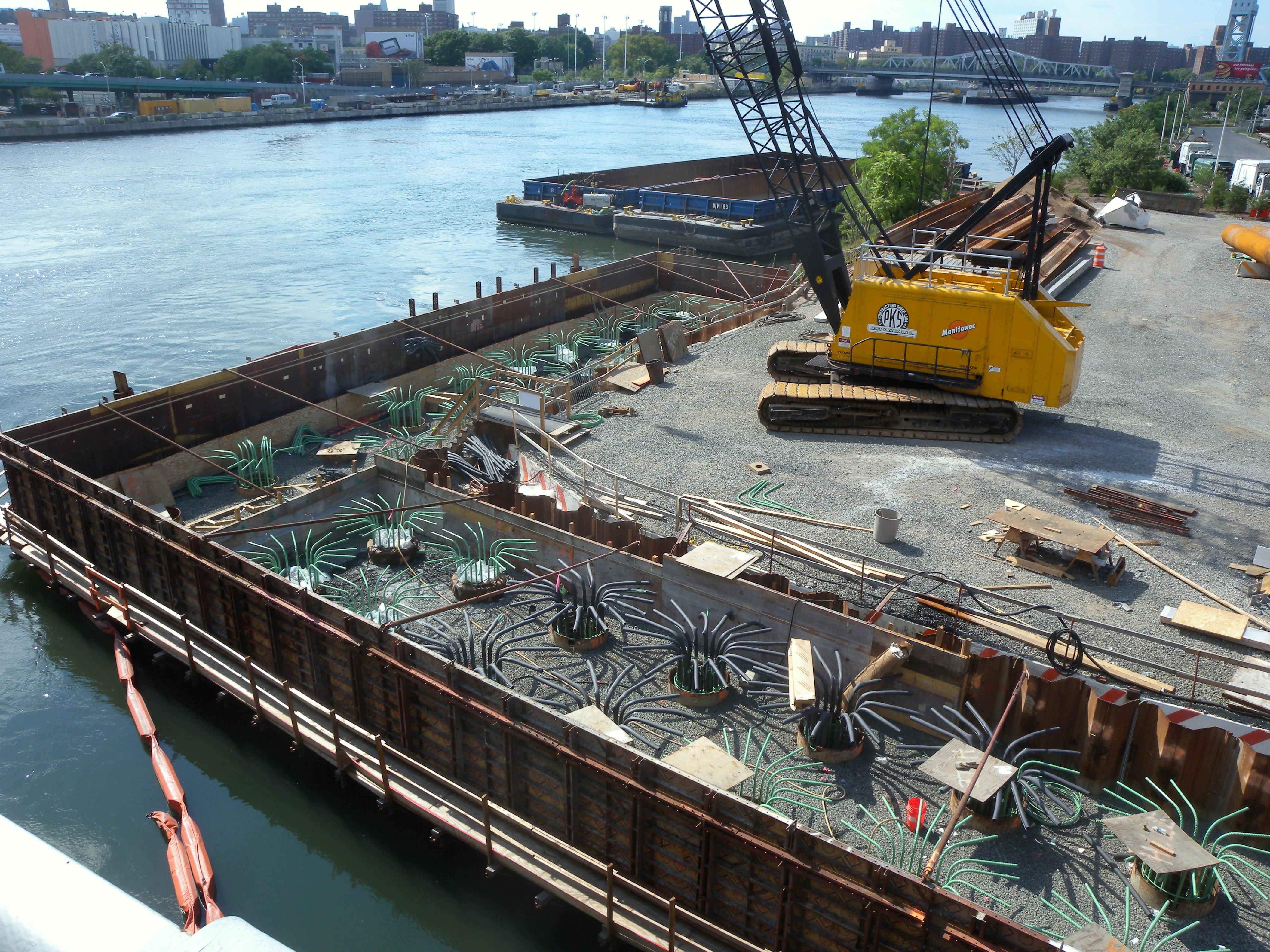 Looking west at possible footings on upstream Bronx side of bridge on a mostly sunny afternoon.